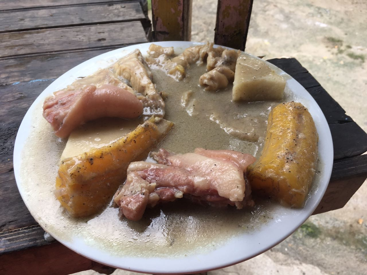 A plate of rondon